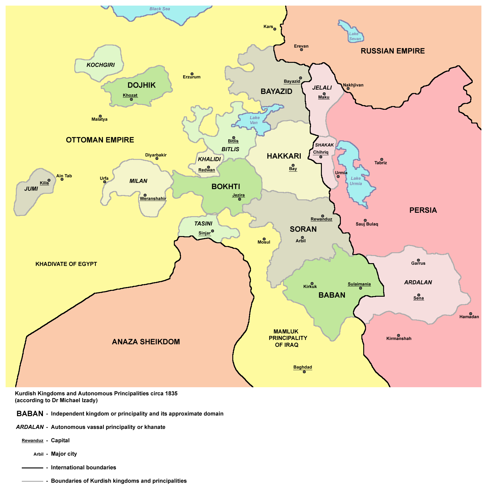 Kurdish Independent Kingdoms and Autonomous Principalities circa 1835 (according to Dr Michael Izady).